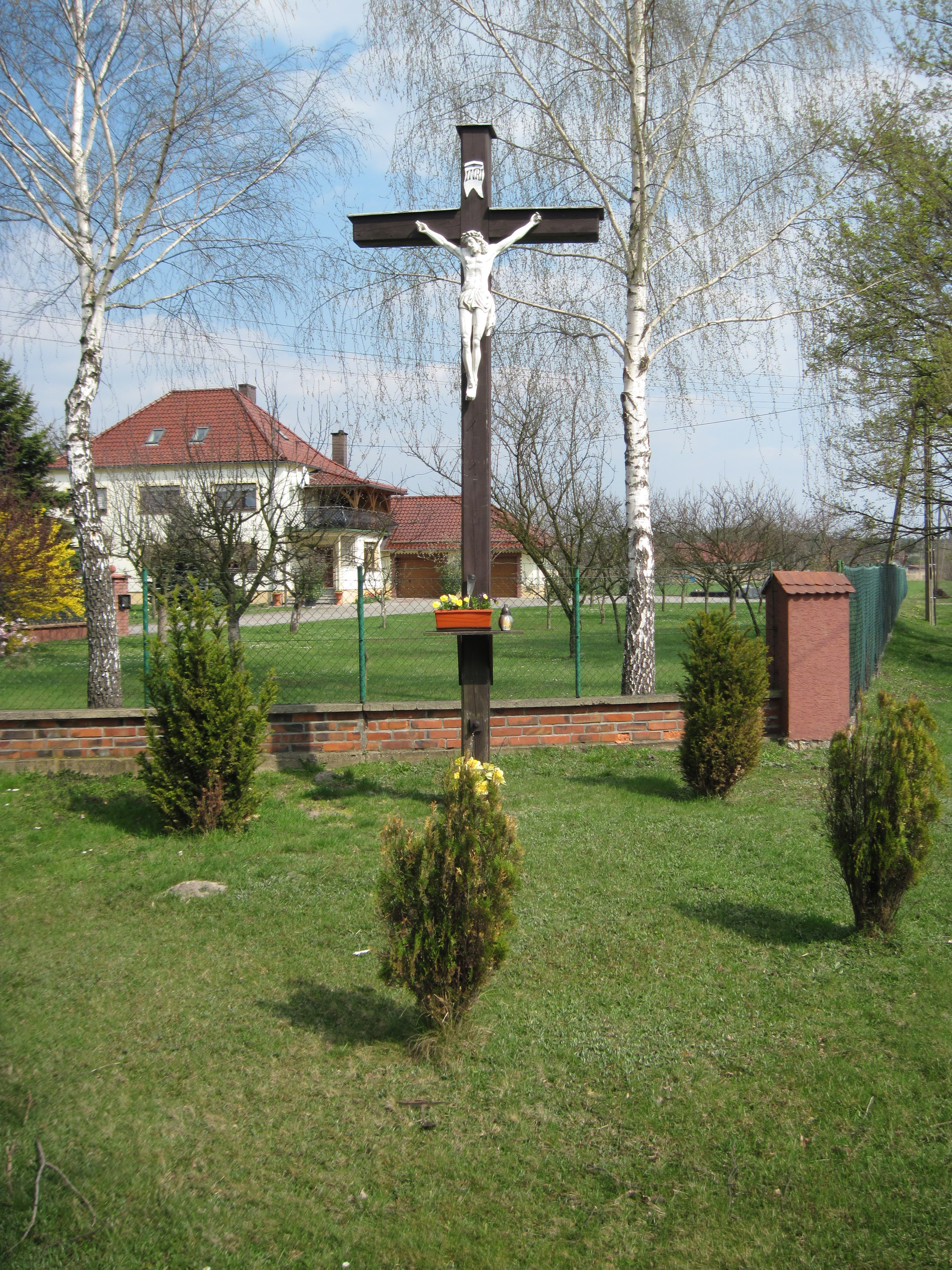 Wayside cross at 1 Maja and Leśna crossing in Brynica